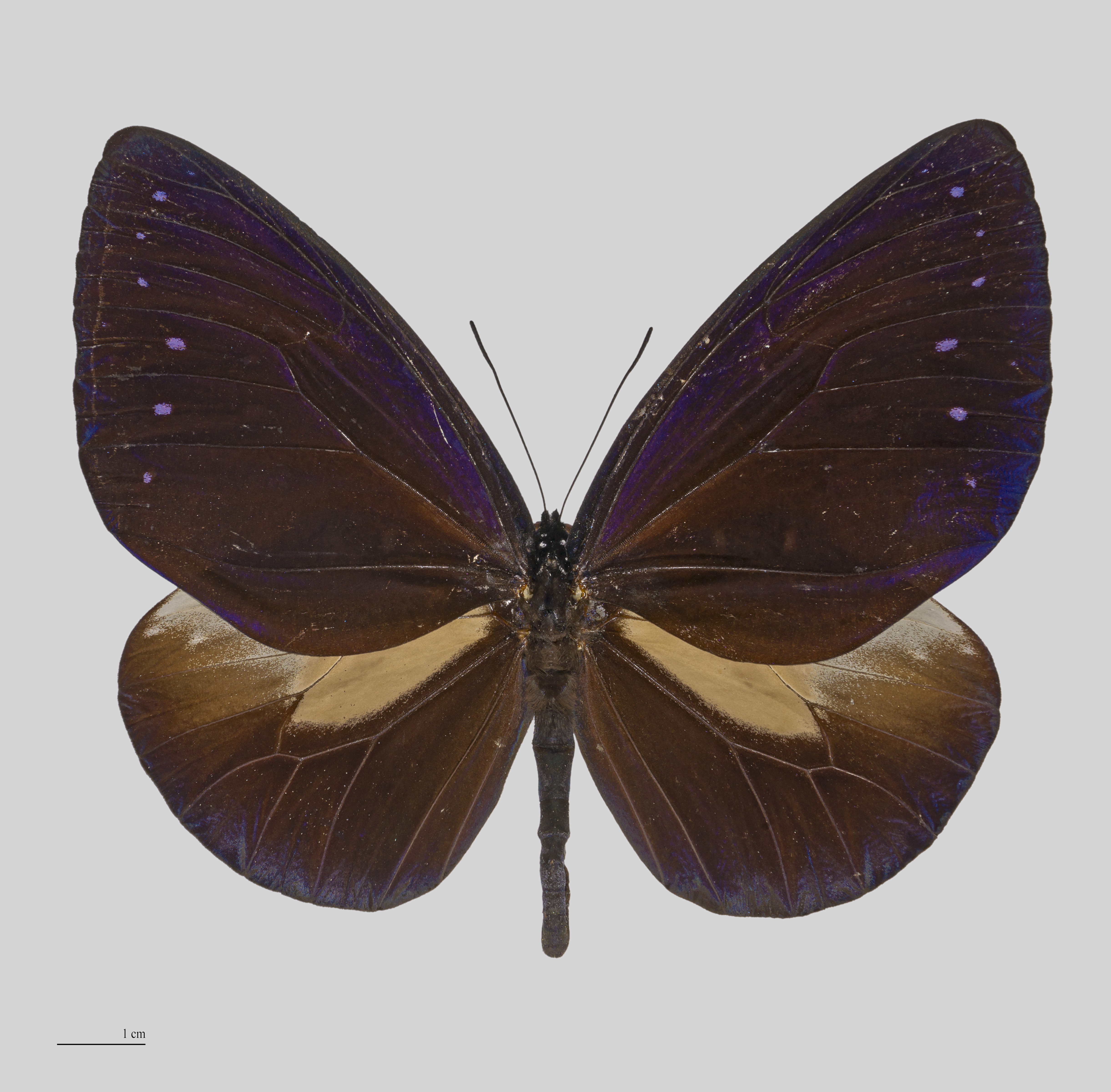 Female specimen Locality: Buru, Indonesia